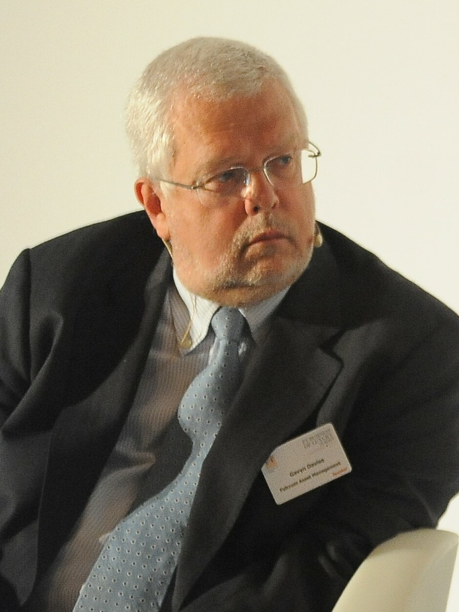 Gavyn Davies, the former Goldman Sachs partner and multi-millionaire who was the chairman of the BBC from 2001 until 2004